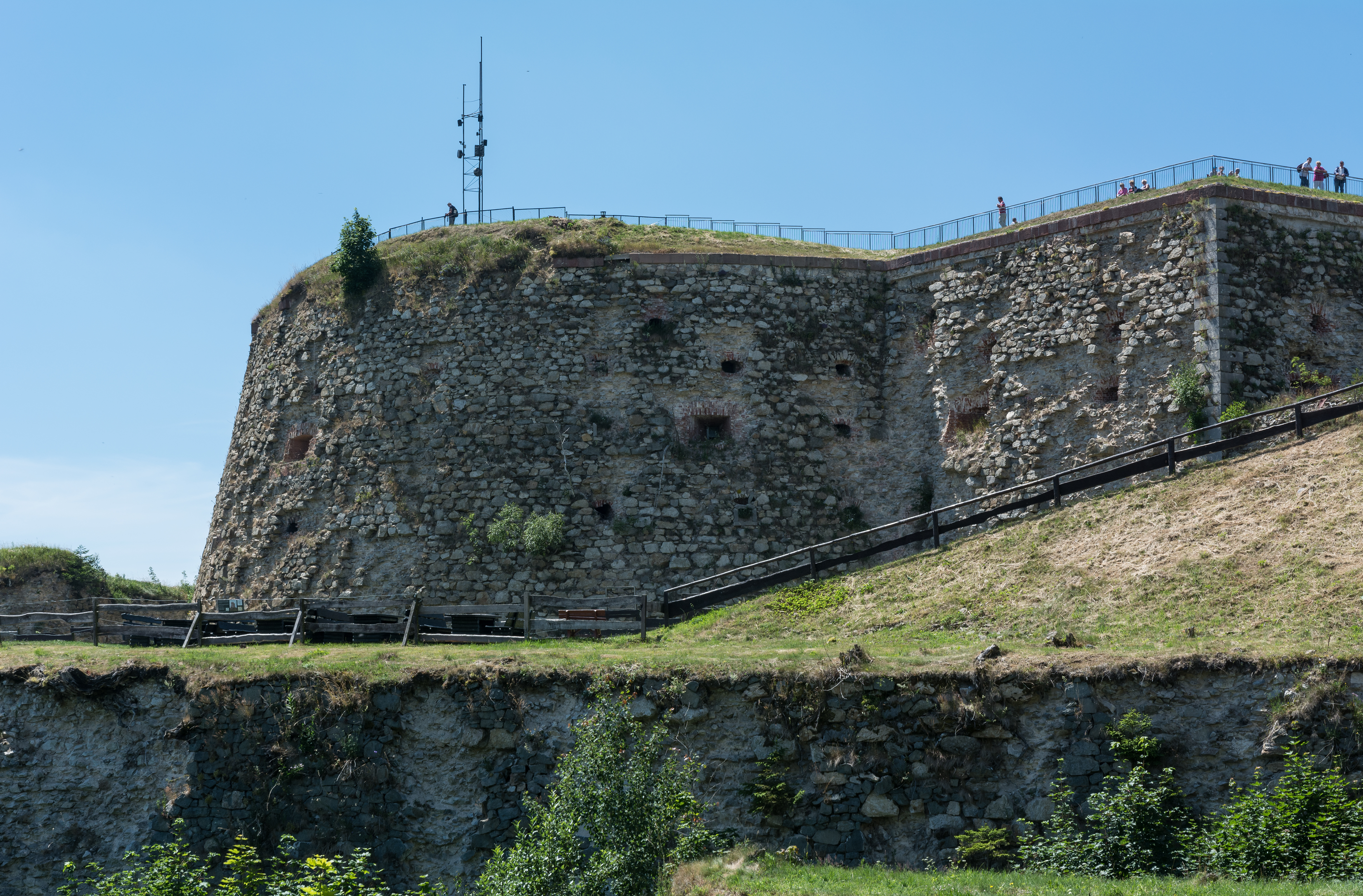 Bastion Dolny in Srebrna Góra Fortess